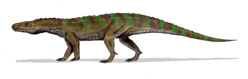 Ticinosuchus ferox, a rauisuchian from the Middle Triassic of Europe, pencil drawing